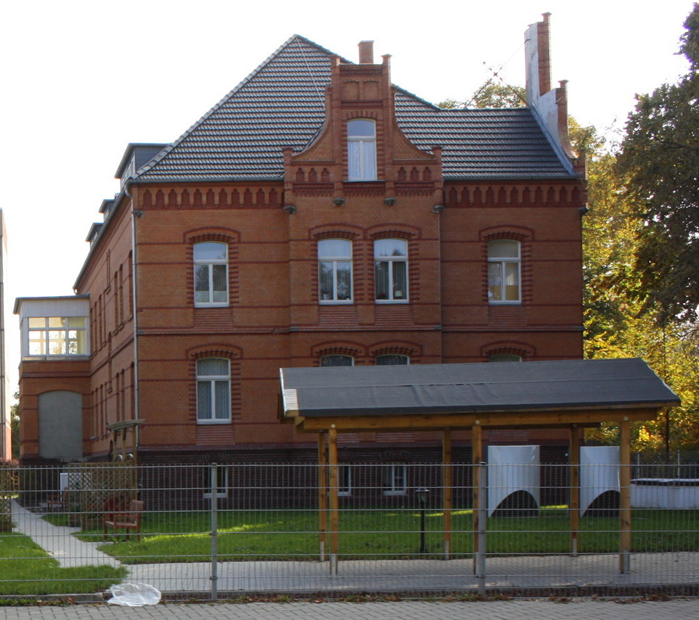 Building in Quedlinburg / Germany